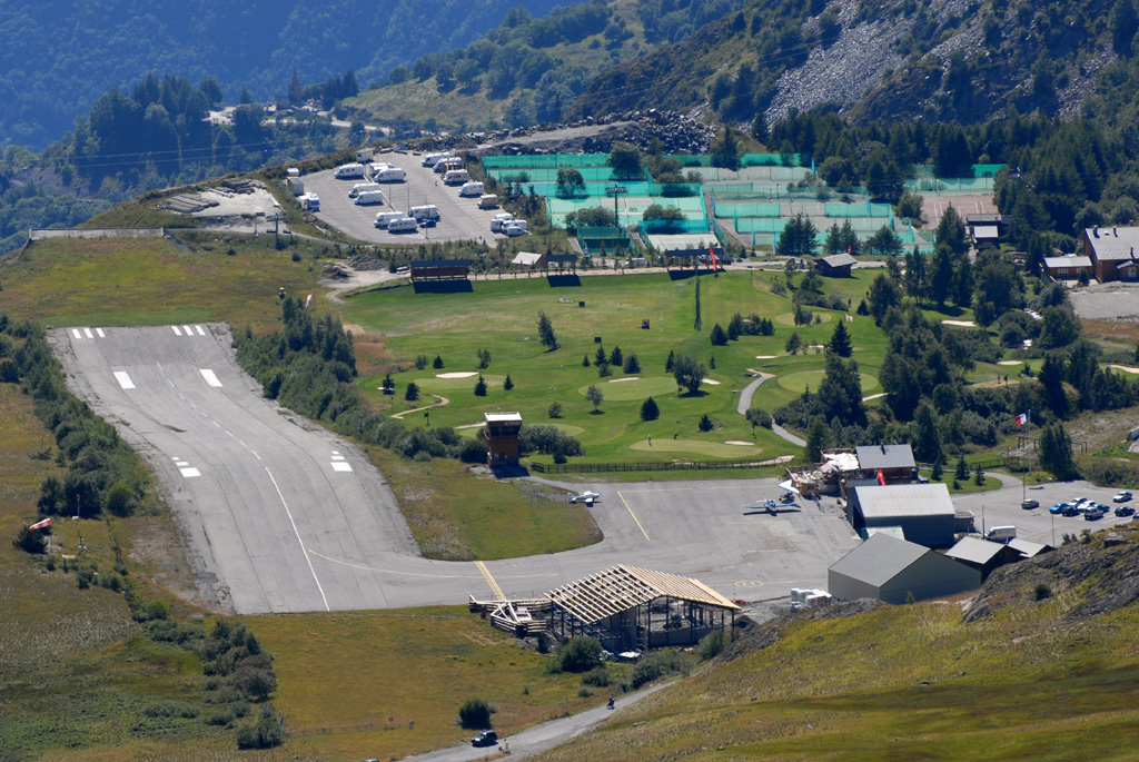 Henri Giraud Altiport at L'Alpe d'Huez (OACI code: LFHU)